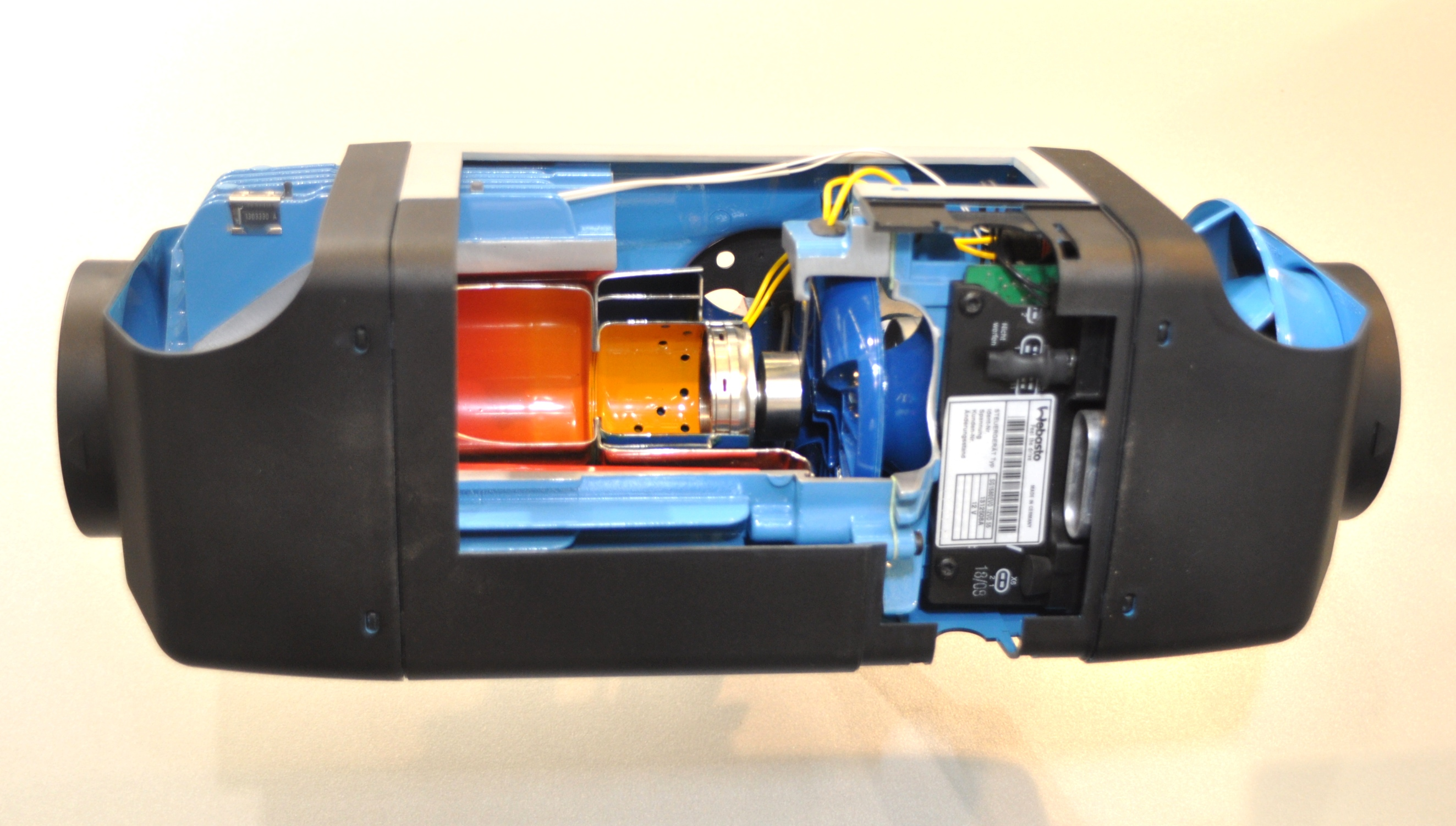 Webasto Air Top 3500 Heating device at METS 2011 RAI Amsterdam